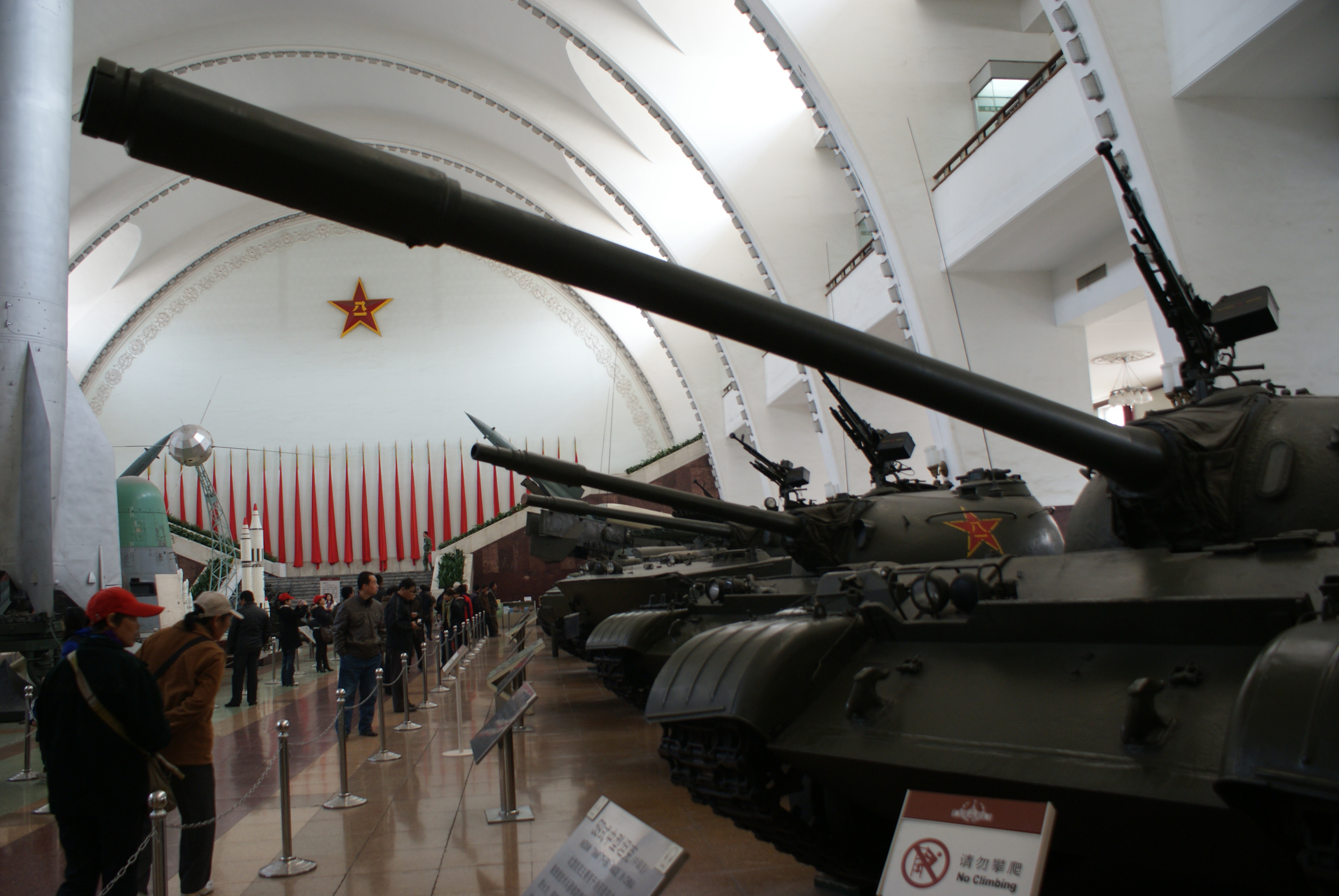 Hall of Tanks in Beijing Military Museum. The three tanks visible on the picture are a Type 59, a Type 62 and a Type 63.